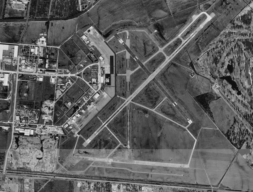 Aerial image of Monroe Regional Airport, Louisiana